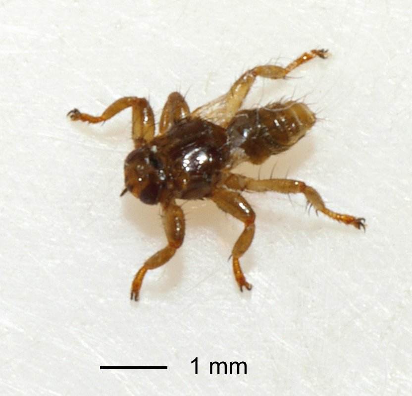 A louse fly, probably a deer ked, Lipoptena cervi. This specimen has broken wings. (If the wings were actively shed from the fly or broken while trying to remove the animal from the – human – hair, is unclear.)